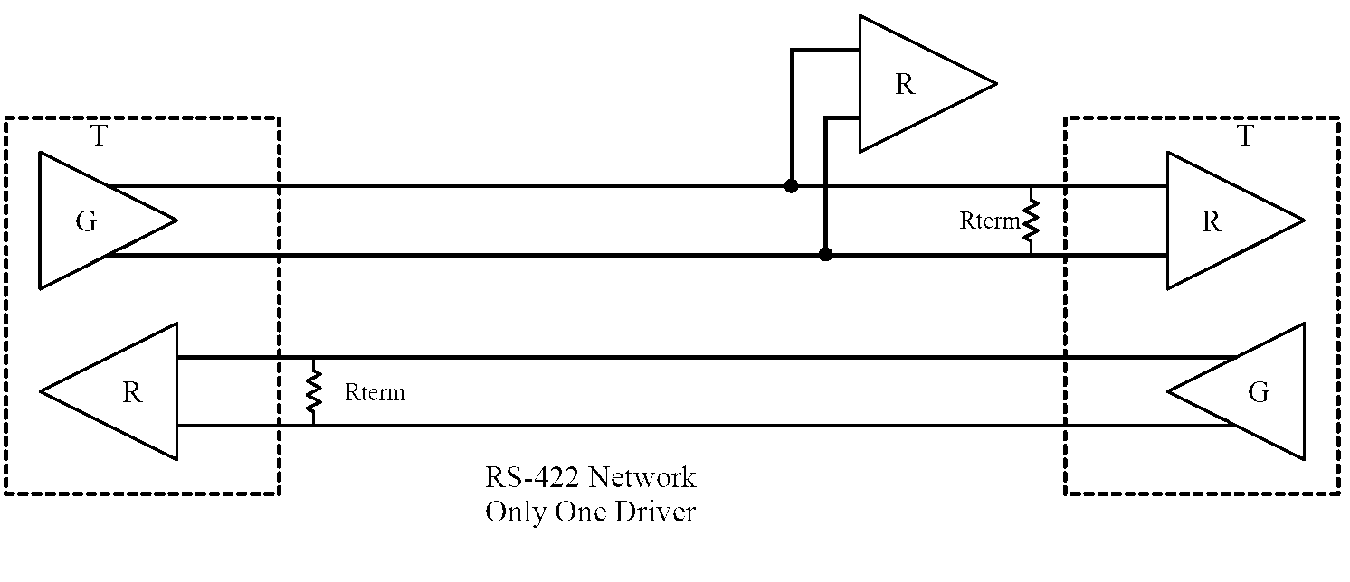 RS 422 network. Multiple receivers with terminations. Only one driver per pair of wires is allowed.